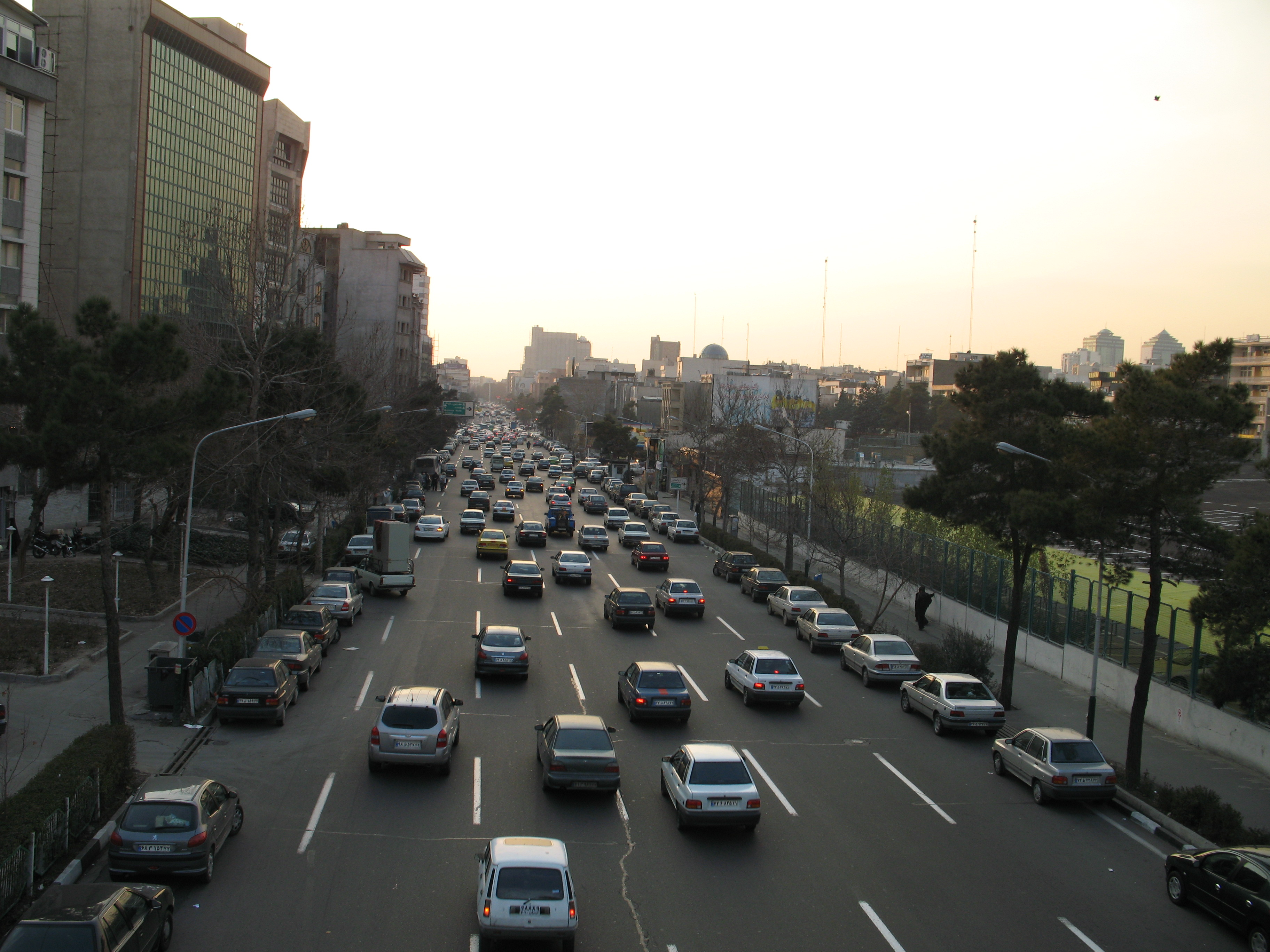 Here is traffic much better than on south side